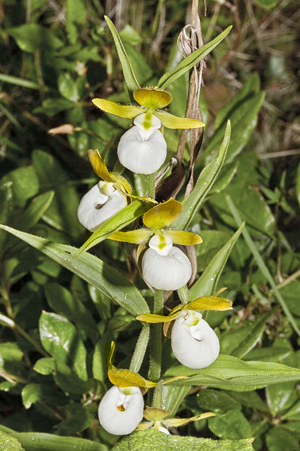 Cypripedium californicum — California lady's slipper; native orchid. Blooming ( June 3) in the Klamath Mountains, Del Norte County, California.